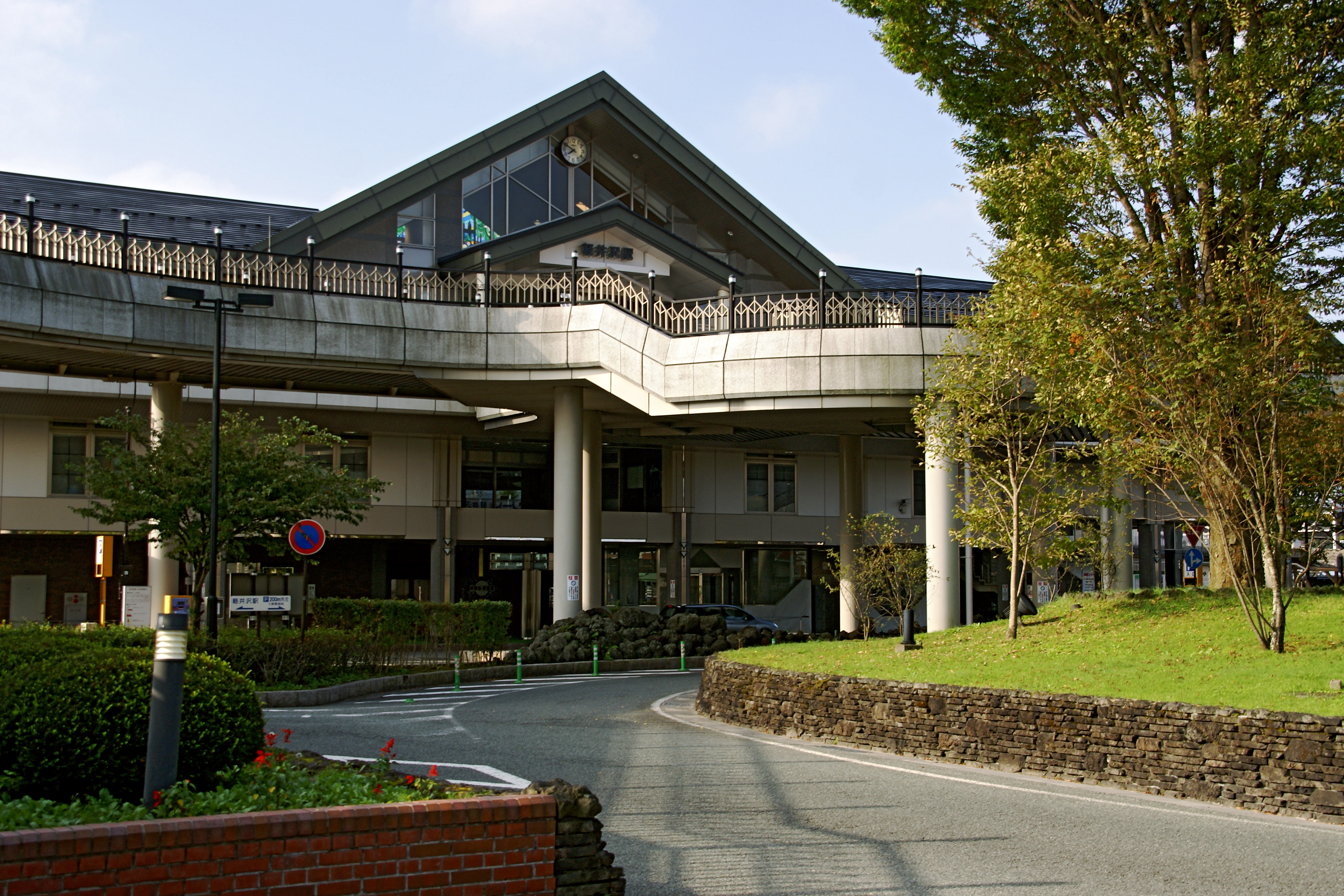 Karuizawa Station in Karuizawa, Nagano prefecture, Japan